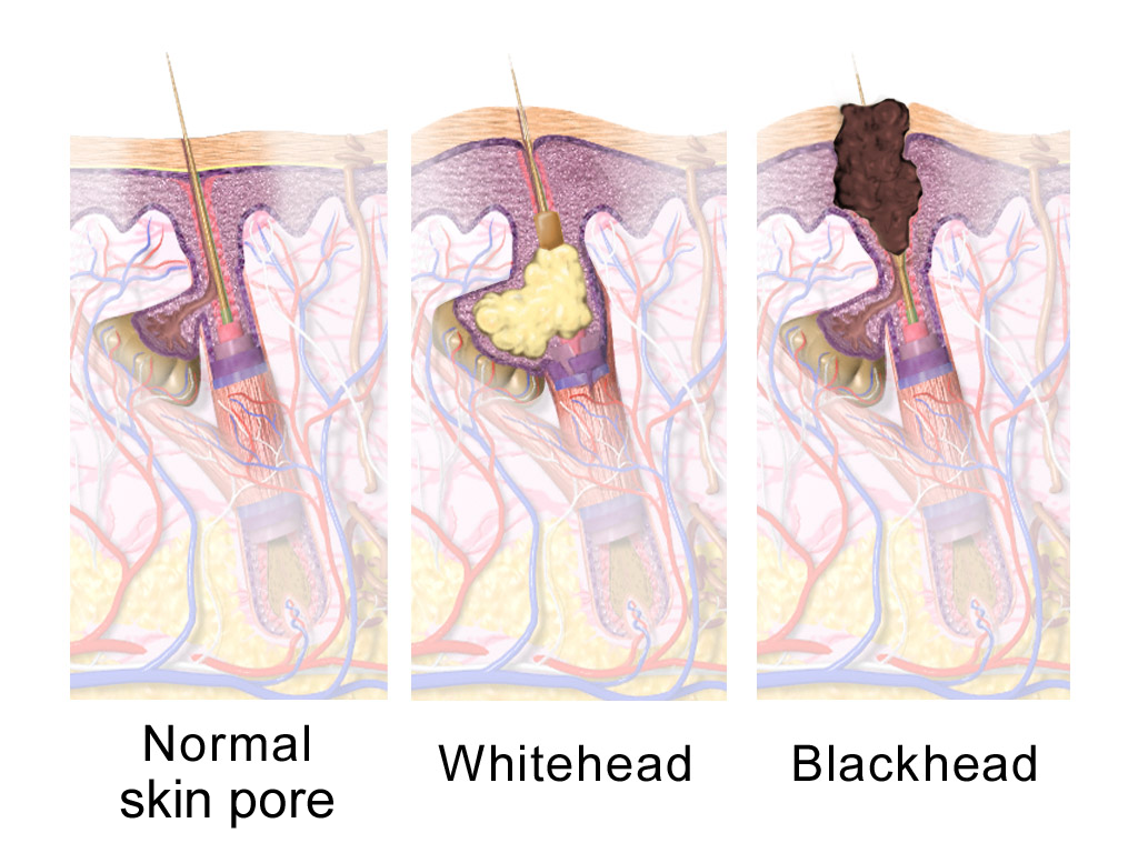 Acne. See a full animation of this medical topic.